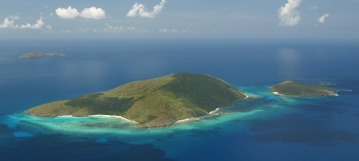 Hans Lollik Islands, Little and Great, US Virgin Islands. I own this picture and hereby grant unrestricted right to use and publish this image as according to the GNU Free Documentation License.